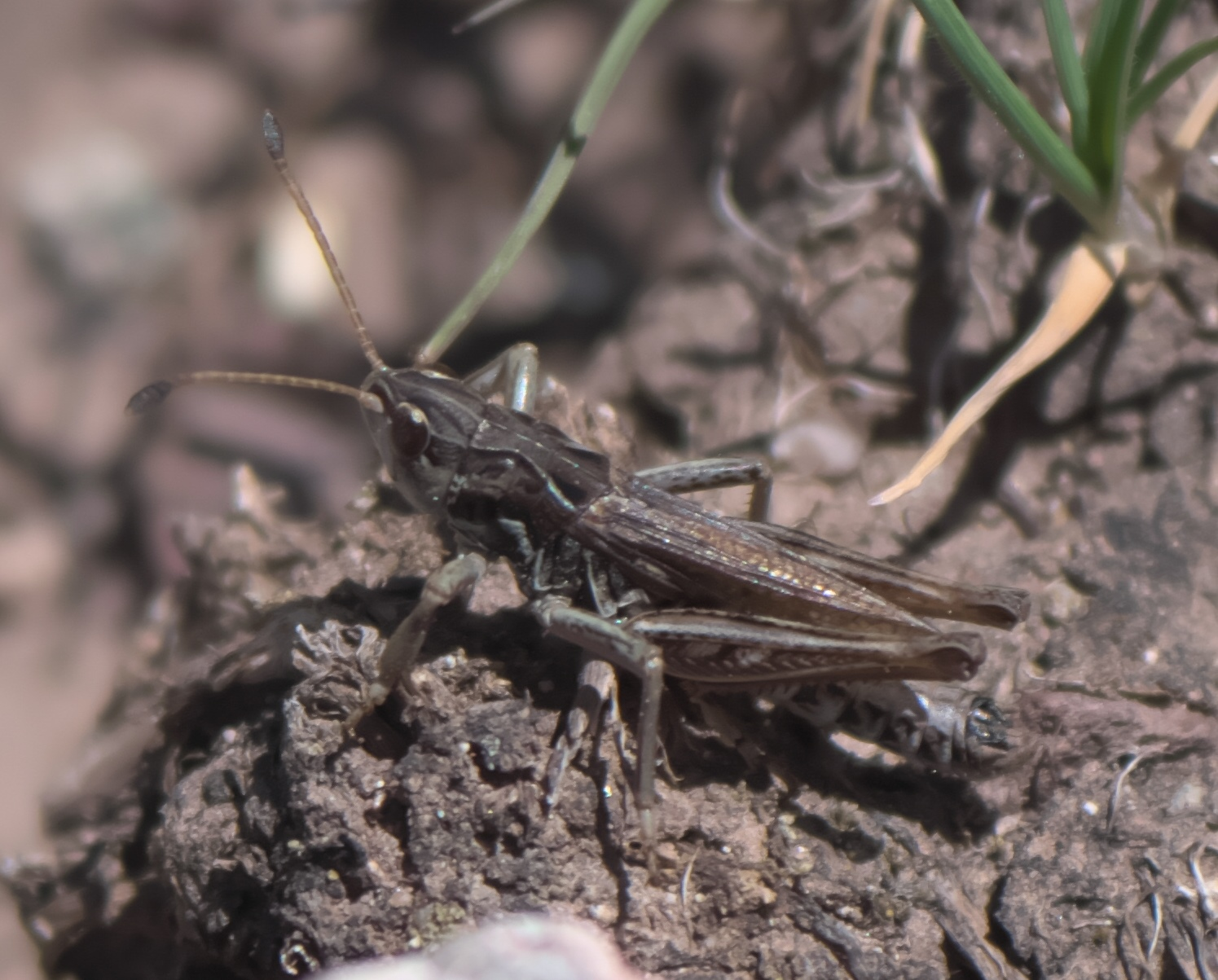 Aeropedellus clavatus, Club-horned Grasshopper, male, ID Confidence: 98